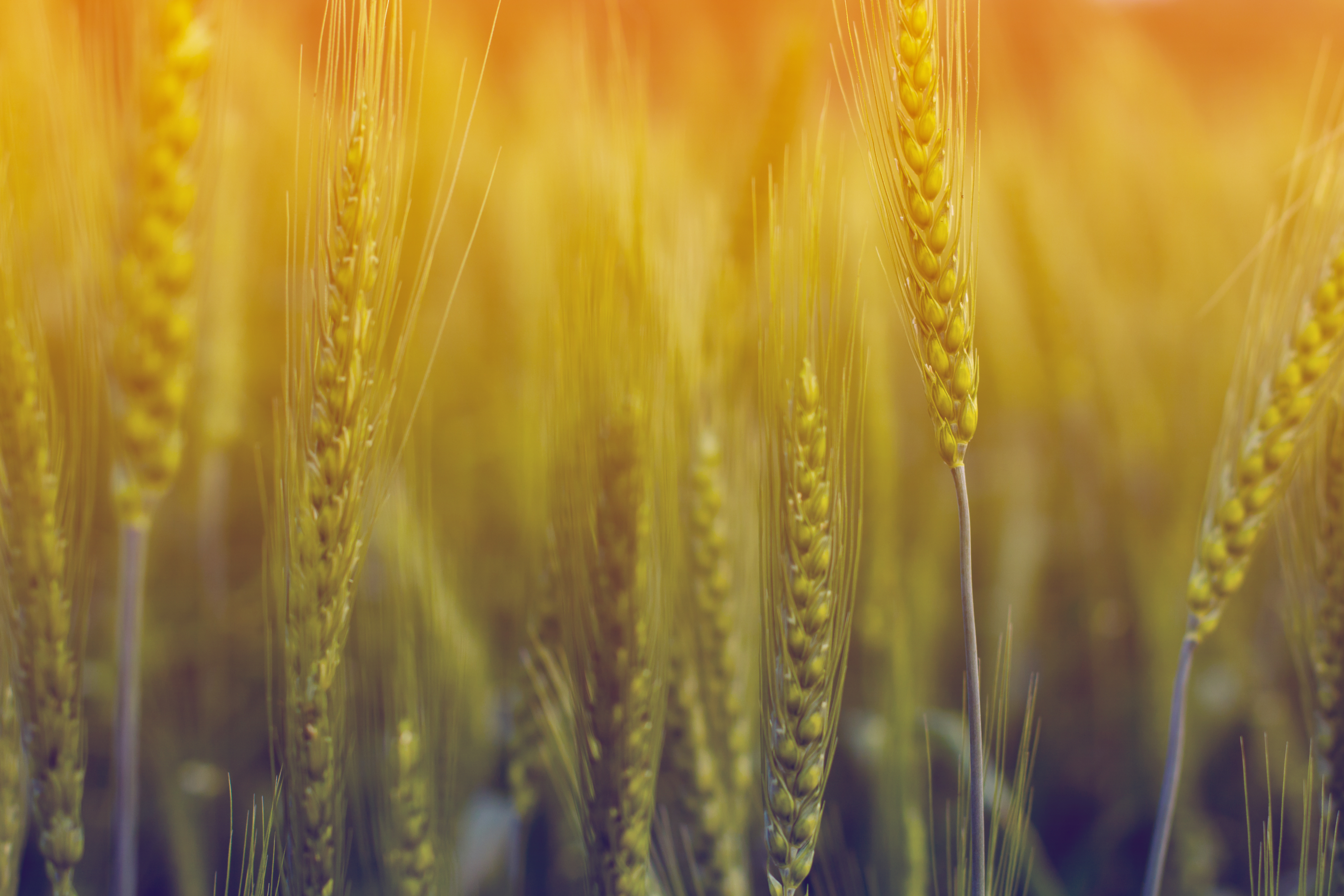 Wheat